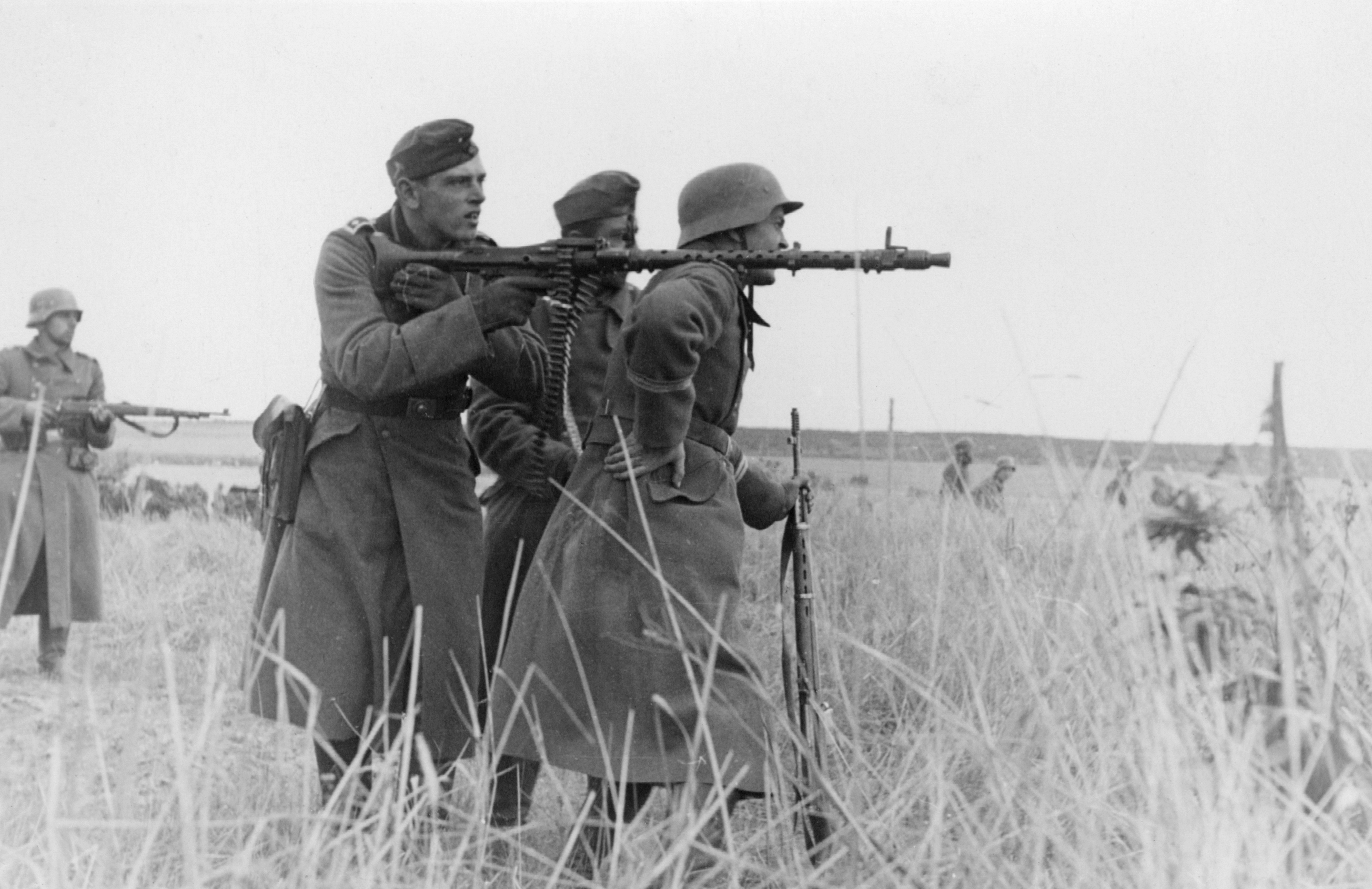 German machine-gun squad on the Eastern Front with MG34. The right soldier (wearing the cuff rings of a Hauptfeldwebel), is using a (probably captured) Russian SVT-38 rifle. Picture was taken by my grandfather.